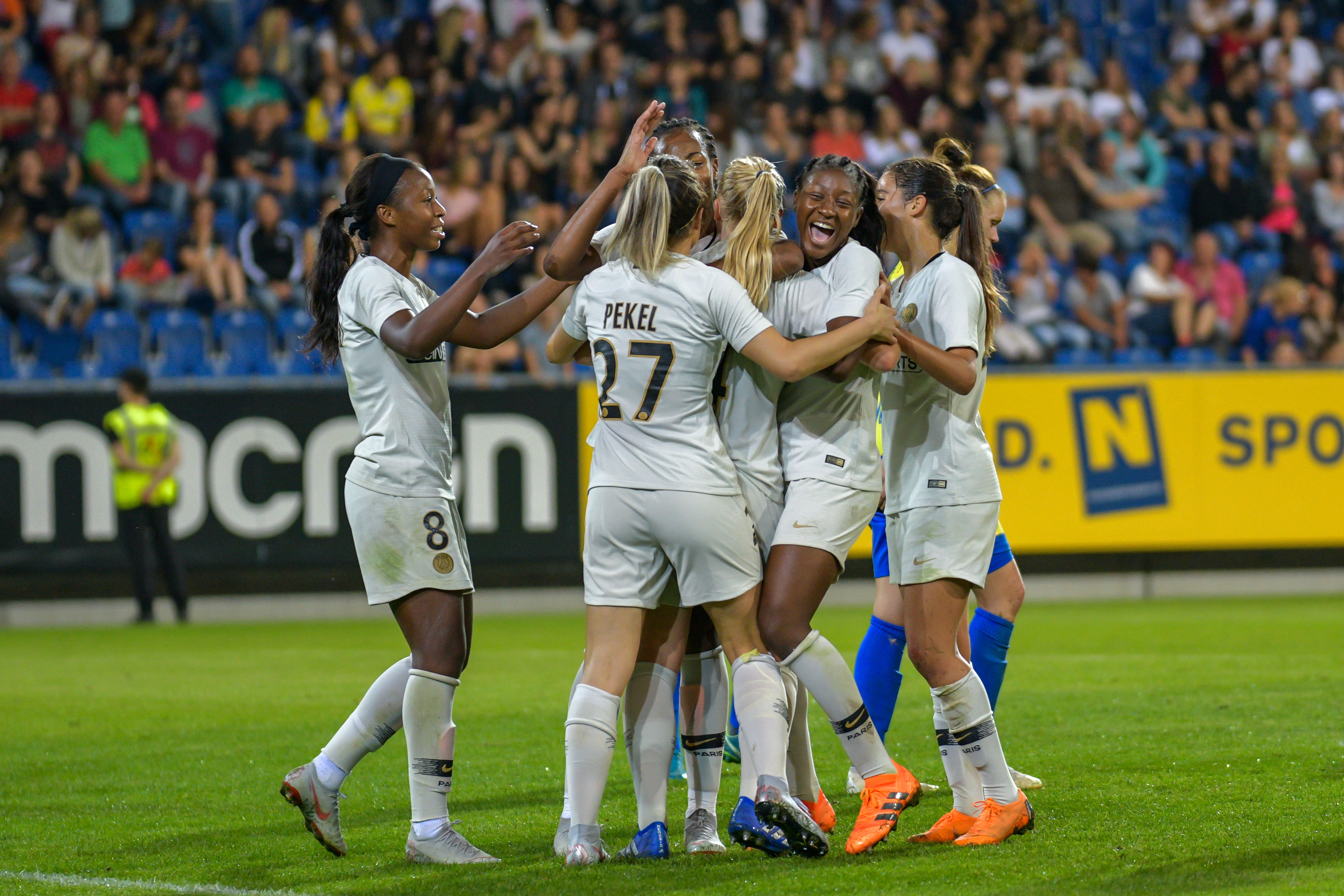 UEFA Women's Champions League 2019 Final Round of 32 SKN St.Poelten vs. Paris Saint Germain 2018/09/12. Picture shows players of PSG celebrating the 1:4 of Paulina Dudek of PSG.